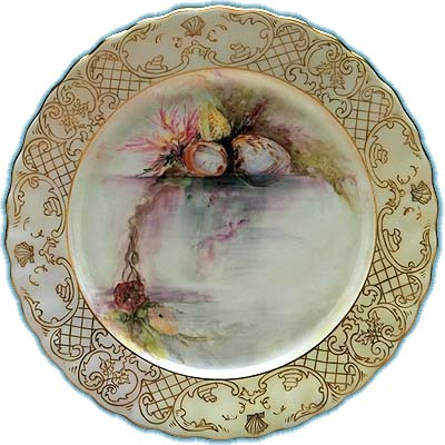 Cytherea gibbia, Halymenia ligulata. A hand-painted plate from the Cabot Commemorative State Dinner Service.